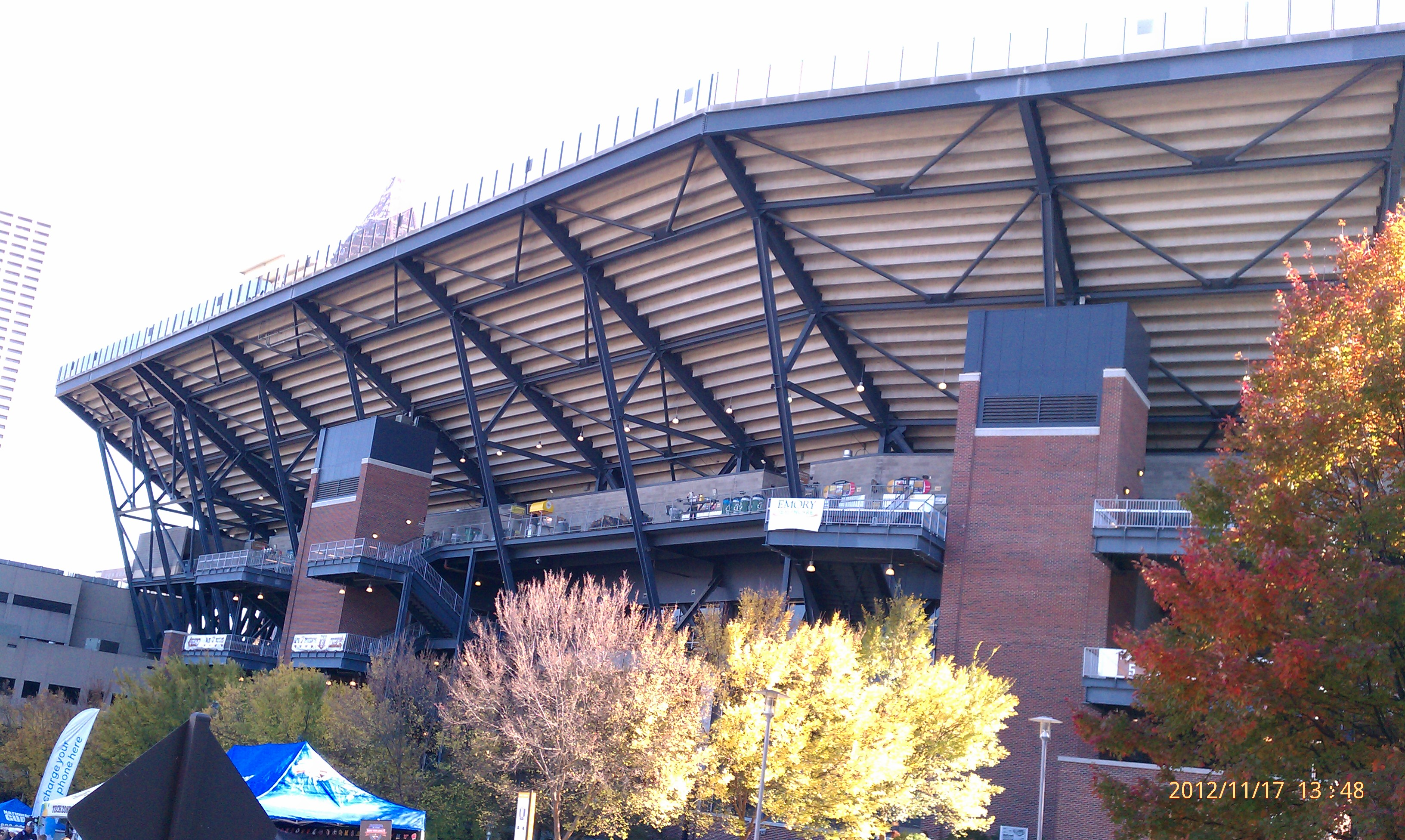 Picture of North stands of Bobby Dodd stadium taken from Bobby Dodd Way